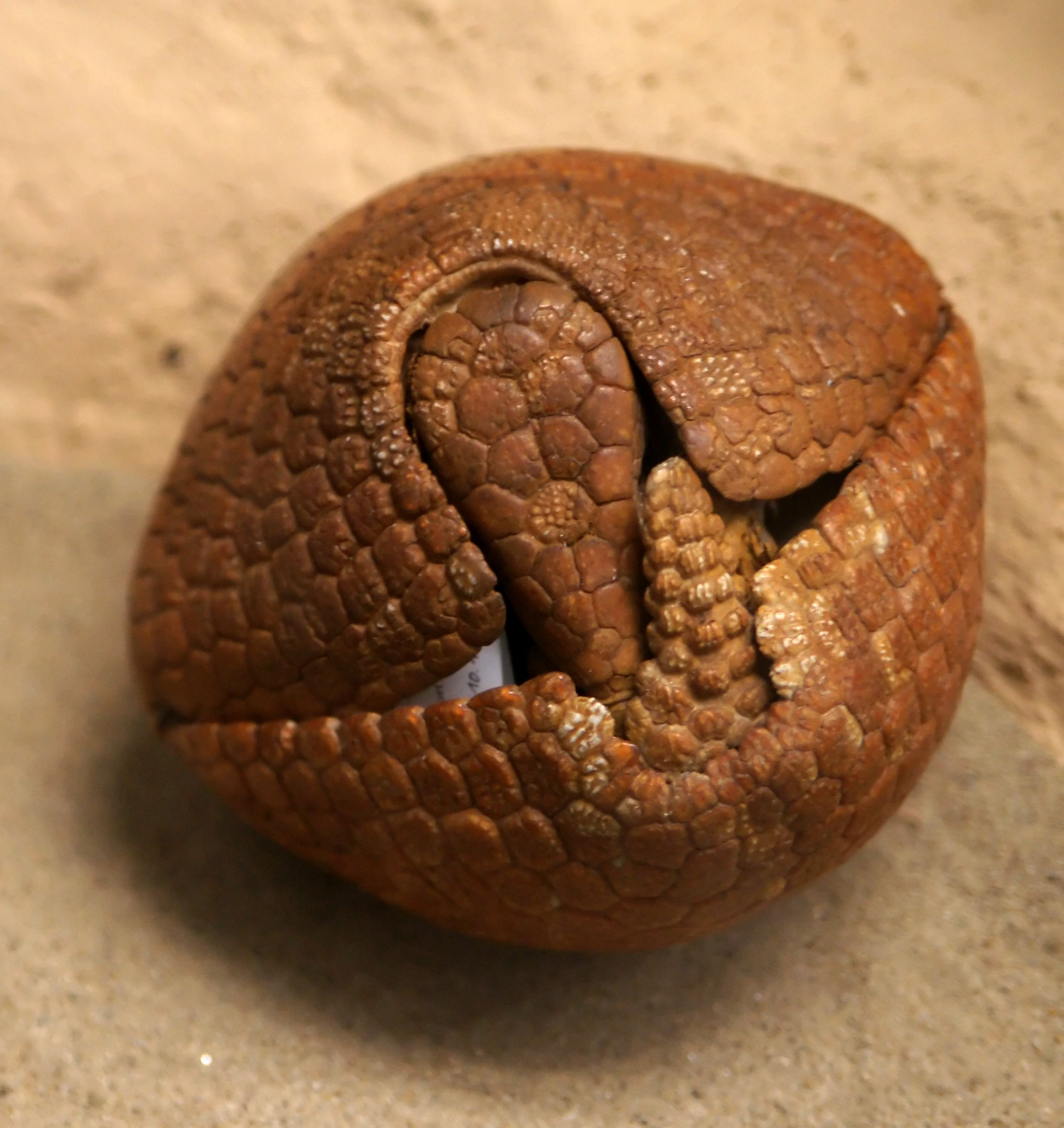 Southern Three-banded Armadillo, Tolypeutes matacus, in the Natural History Museum, Vienna.